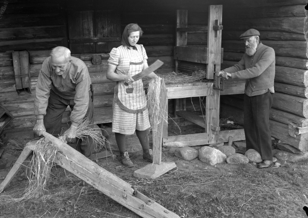 En kvinne og to menn arbeider med lin foran en linbadstu. Opprinnelig var denne badstuen fra gården Dile i Vestre Gran.